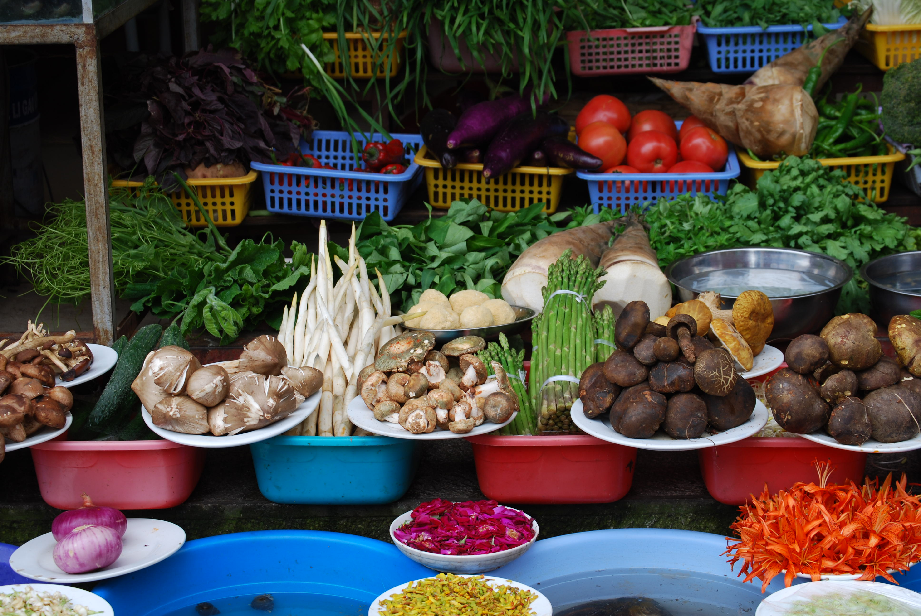 Yunnan food in Dali restaurant front